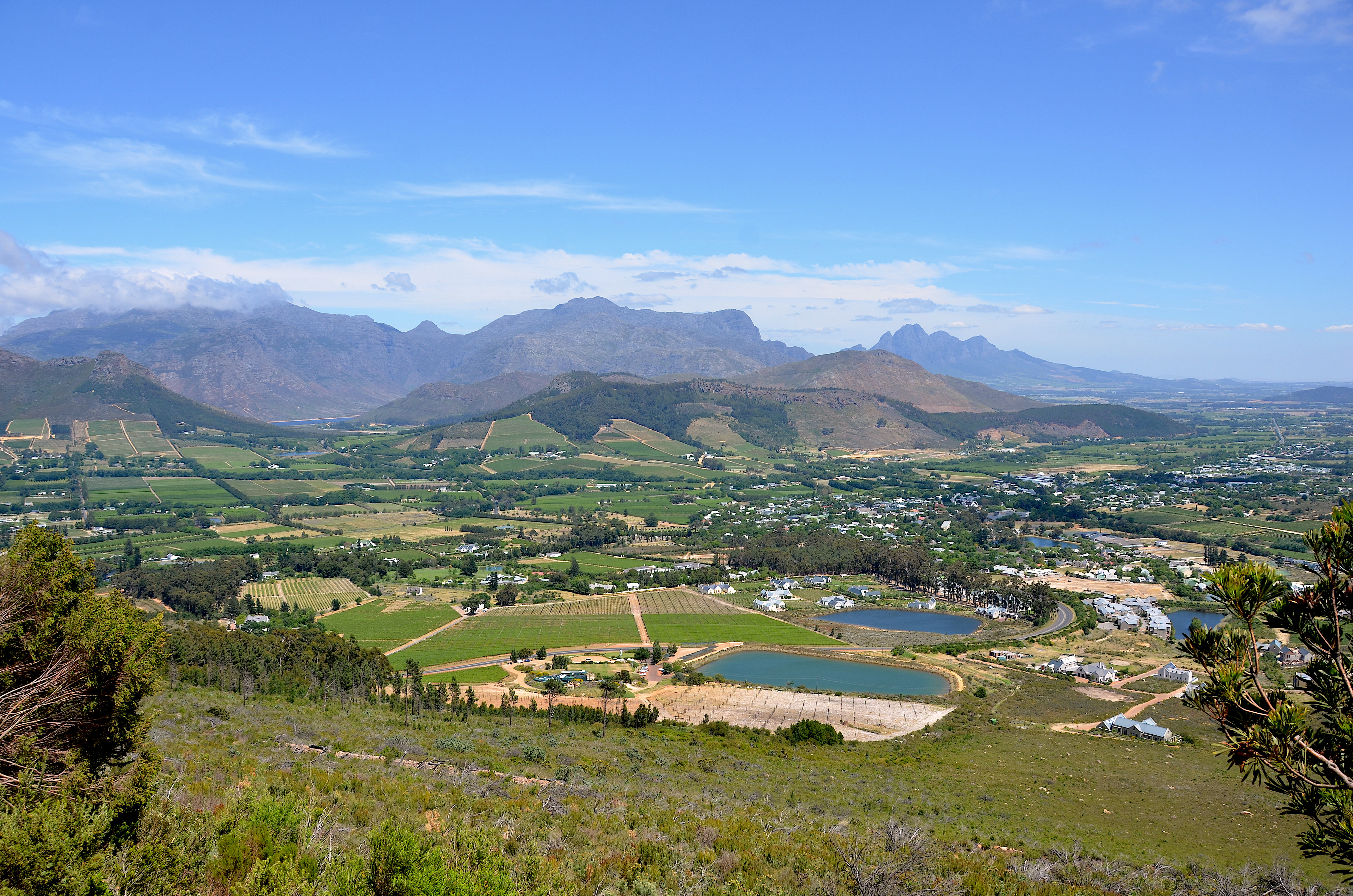 Franschhoek October 2015 (South Africa)